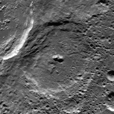 LROC . Numerov northwest rim overlaid by Antoniadi, many craterlets are also visible in the field.